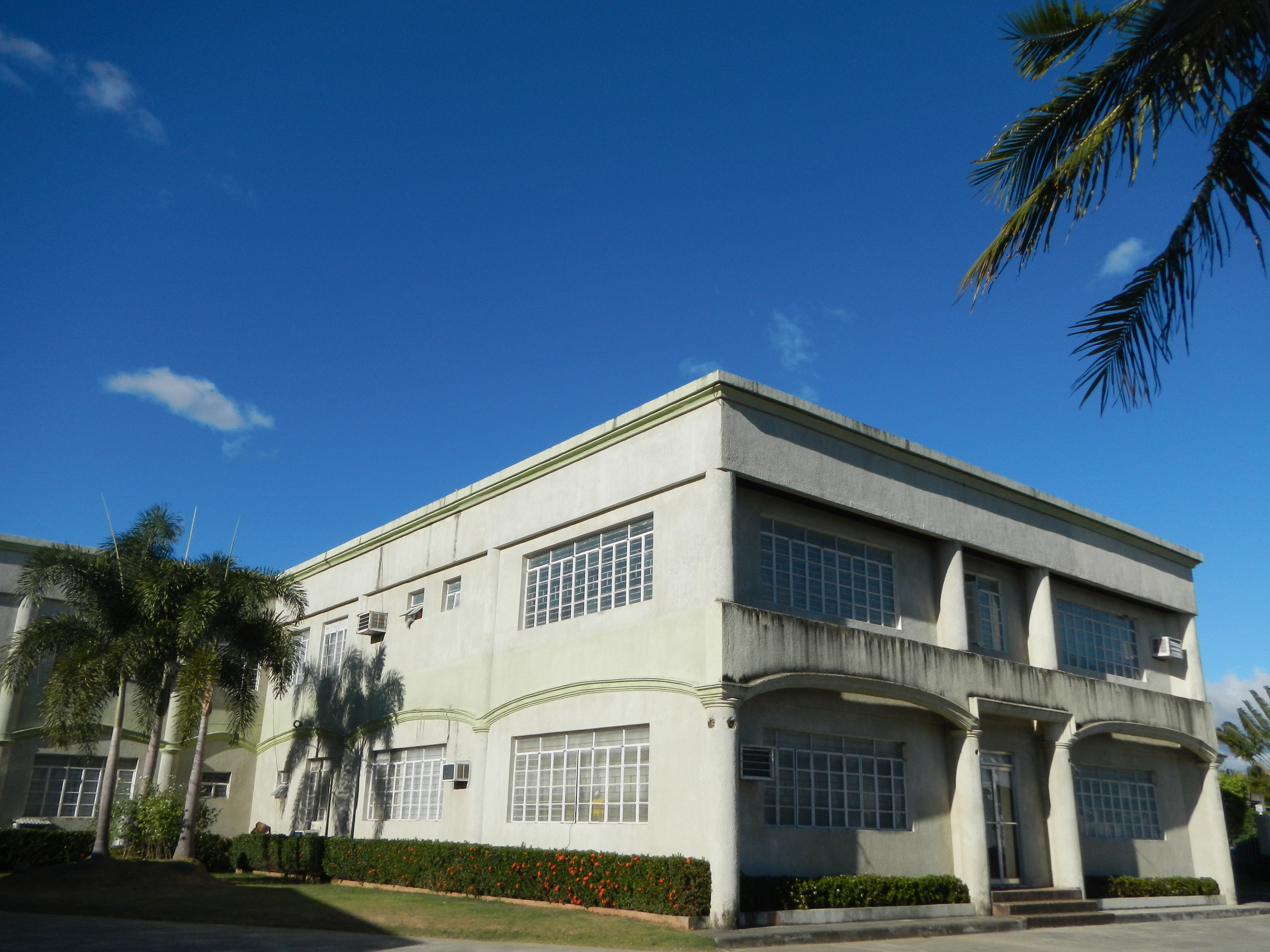 [1]Bongabon, Nueva Ecija is a second class municipality in the province of Nueva Ecija, Philippines. According to the 2010 census, it had a population of 59.343 people. It has an area of 28,352.90 hectares (70,061.5 acres), and is the leading producer of onion ("Onion Capital of the Philippines") in the Philippines and in Southeast Asia.[2]Hon. Amelia A. Gamilla Municipal MayorHon. Edmond E. Arive - Municipal Vice Mayor[3]